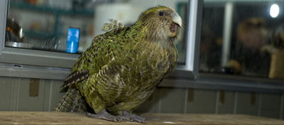 Sirocco guards the hut in the 2008 breeding season. An adult male Kākāpō (Strigops habroptila), Sirocco, was born in 1997 and hand-raised. Please credit author Darren Scott wherever possible.